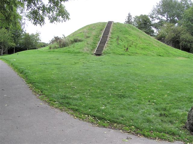 Tom Na Kessaig (Hill of St. Kessog) St Kessog - An Irish follower of St Columba. The mound dates from the 6th Century and is located at The Meadows in Callander.